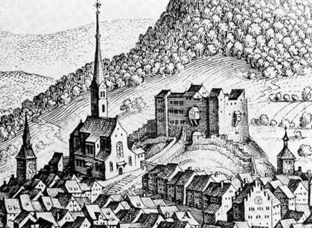 The castle Laufenburg and church in Laufenburg, Switzerland, before 1640.